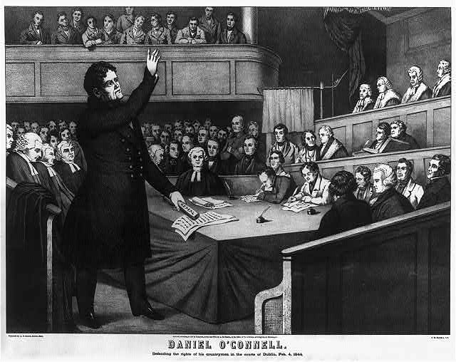 "Daniel O'Connell defending the rights of his countrymen in the courts of Dublin, Feb. 4, 1844." Lithograph of Irish political leader Daniel O'Connell (1775-1847). Print shows Daniel O'Connell arguing for the repeal of the Act of Union.